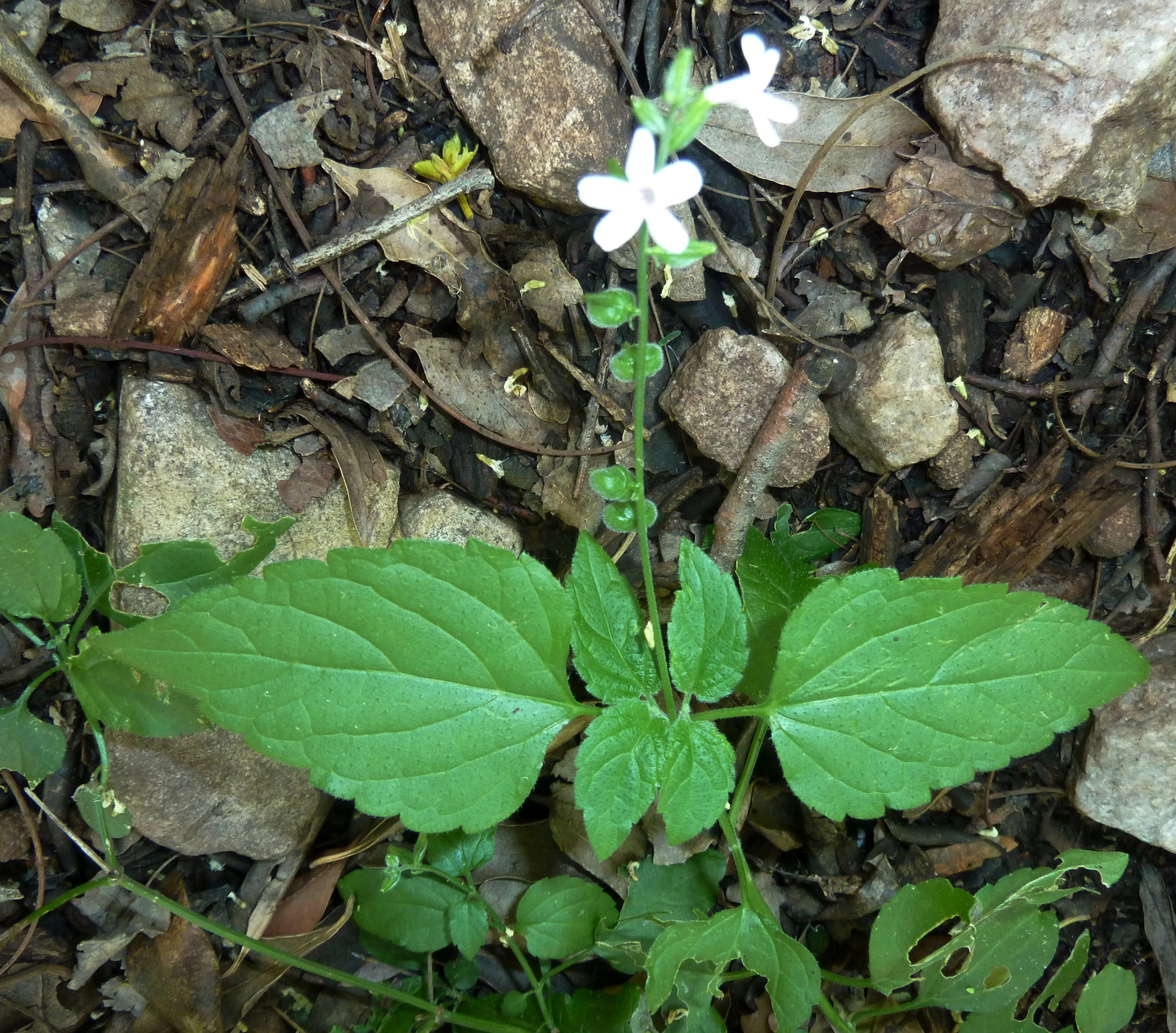 Habit of Priva cordifolia (L.f.) Druce var. abyssinica (Jaub. & Spach) Moldenke on southern slope of the Magaliesberg, near Skeerpoort, South Africa